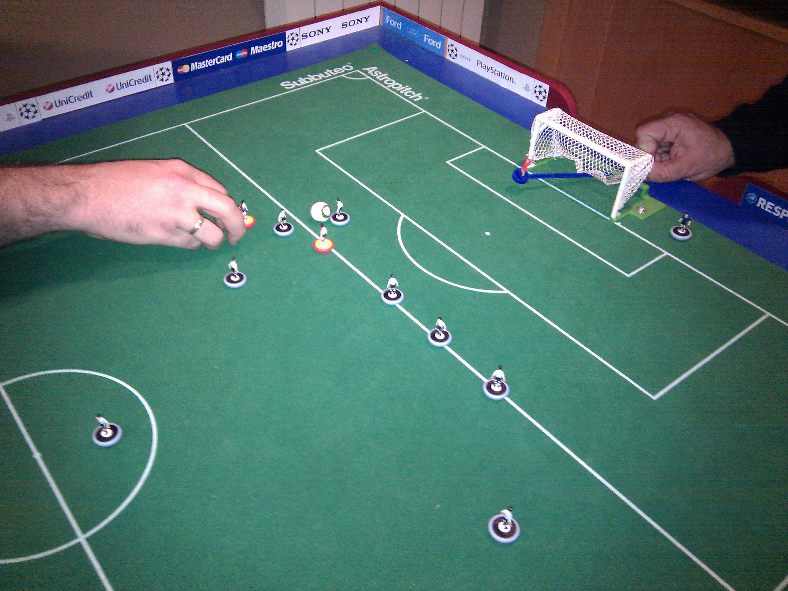 Photo of a table-soccer's match in the home of "donbuche".